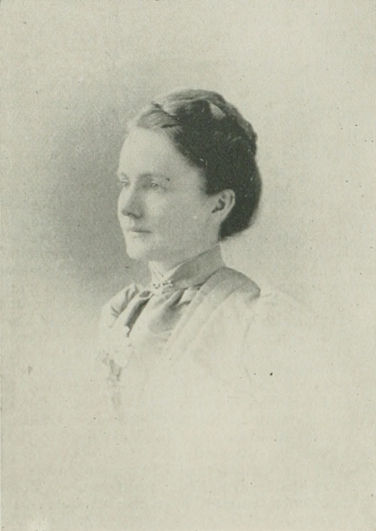 a Woman of the Century